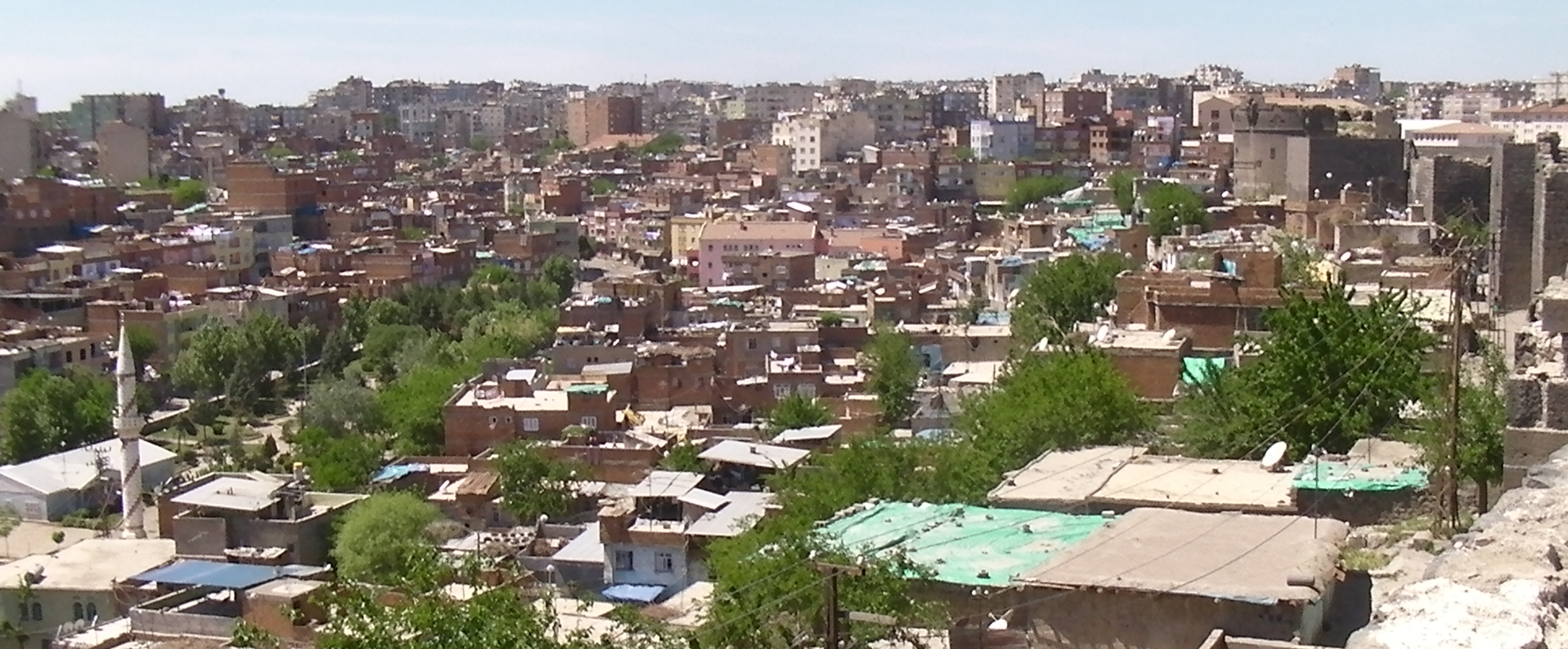 looking west from the old city walls in Diyarbakır, Turkey